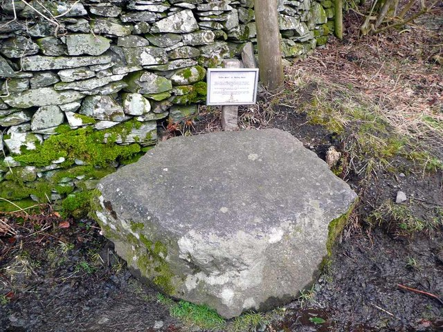 Coffin Stone at Town End This stone is beside a 'corpse road' along which coffins had to be carried from Ambleside for burial at St Oswald's Church, Grasmere. This stone, along with others along the way, was used to support the coffin while the bearers rested.